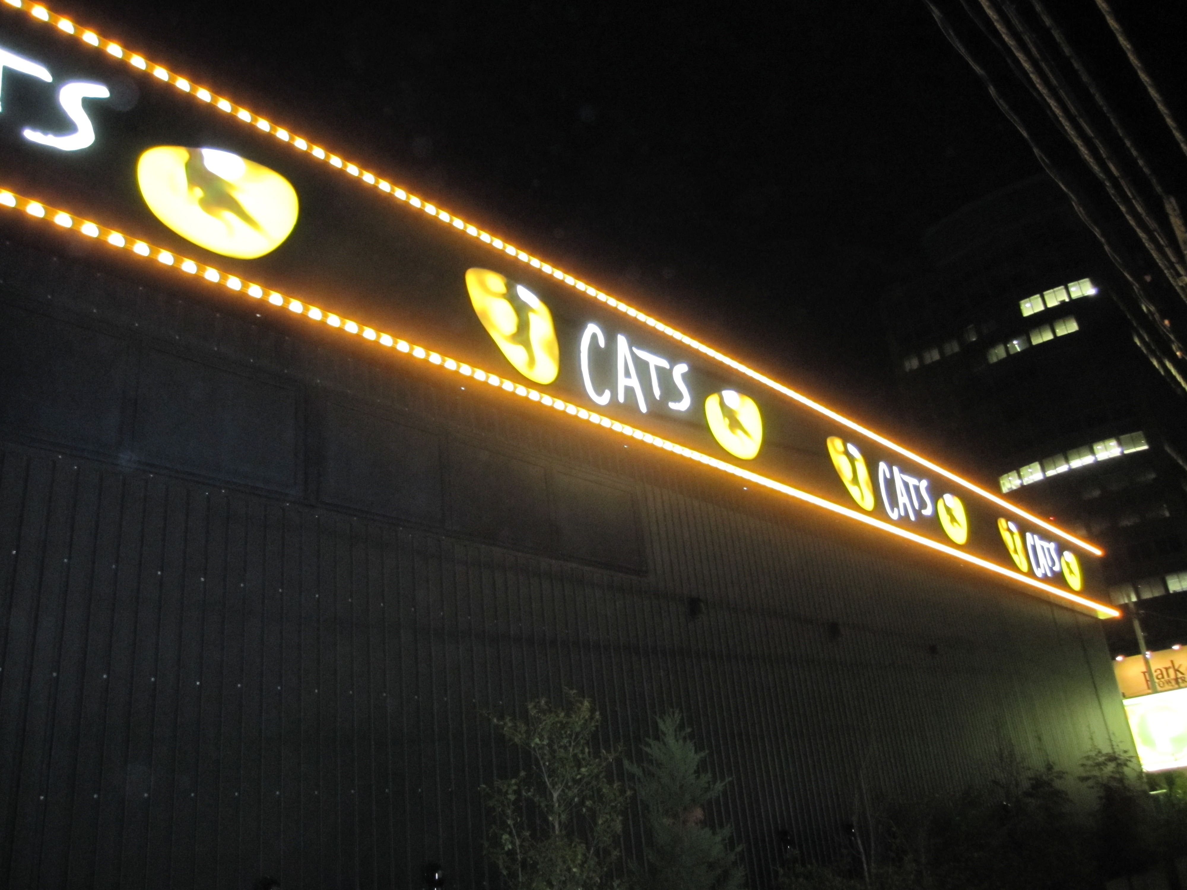 シアター外部夜景